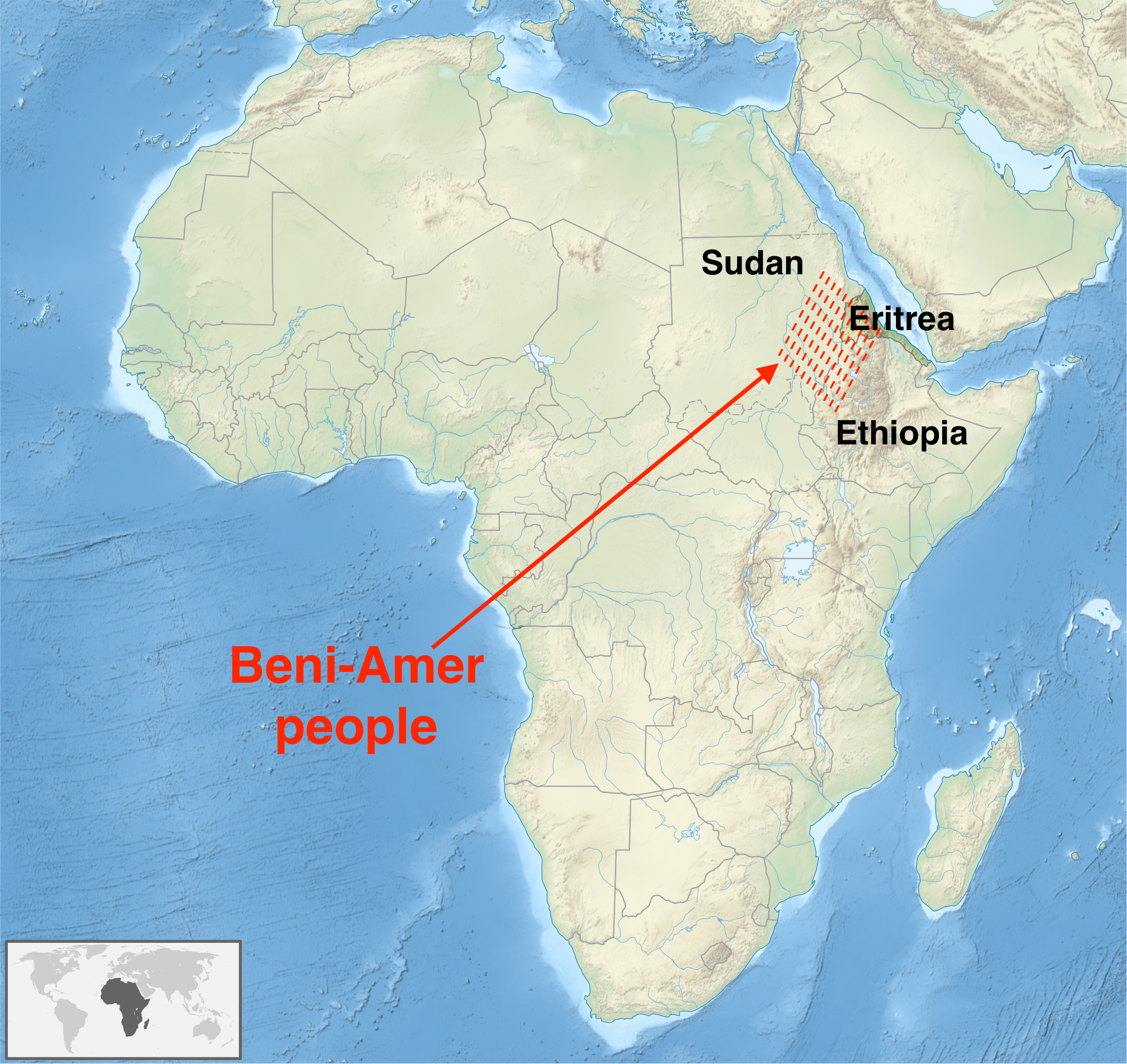 Beni Amer people, also known as Nabtab or Amer, are part of the Beja ethnic group. This map shows the approximate distribution of Beni Amer. This image is a derivative work on File:Eritrea in Africa (relief).svg